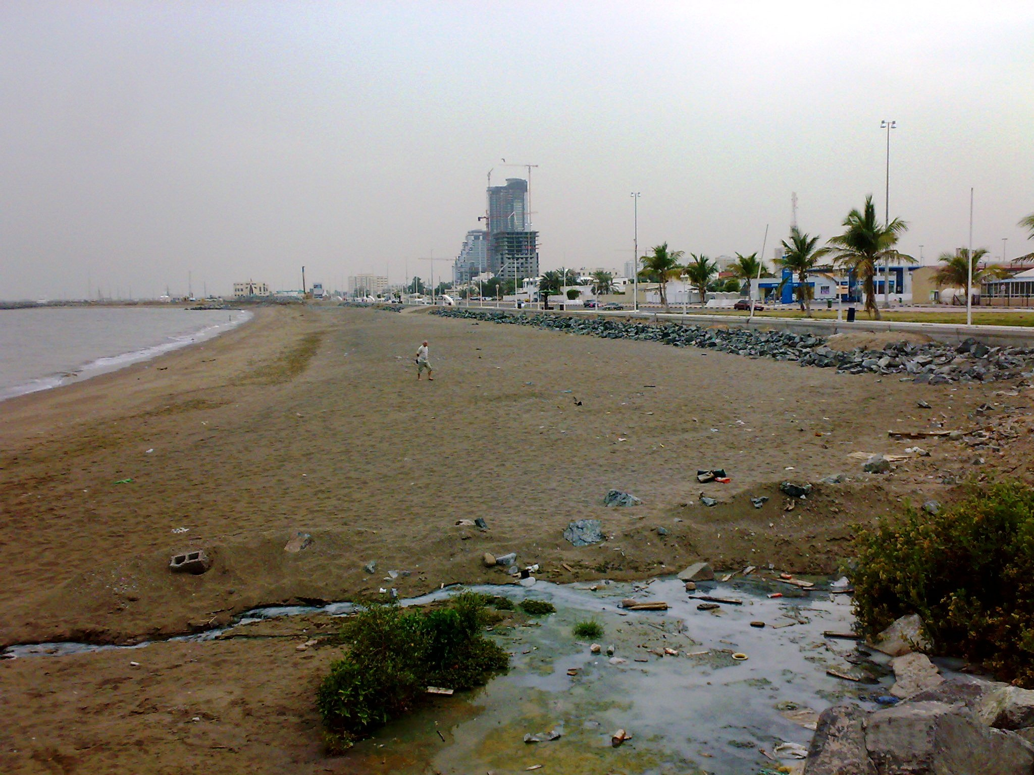 Image from the costal parts of the city of Fujeirah - Emirate of Fujeirah - United Arab Emirates